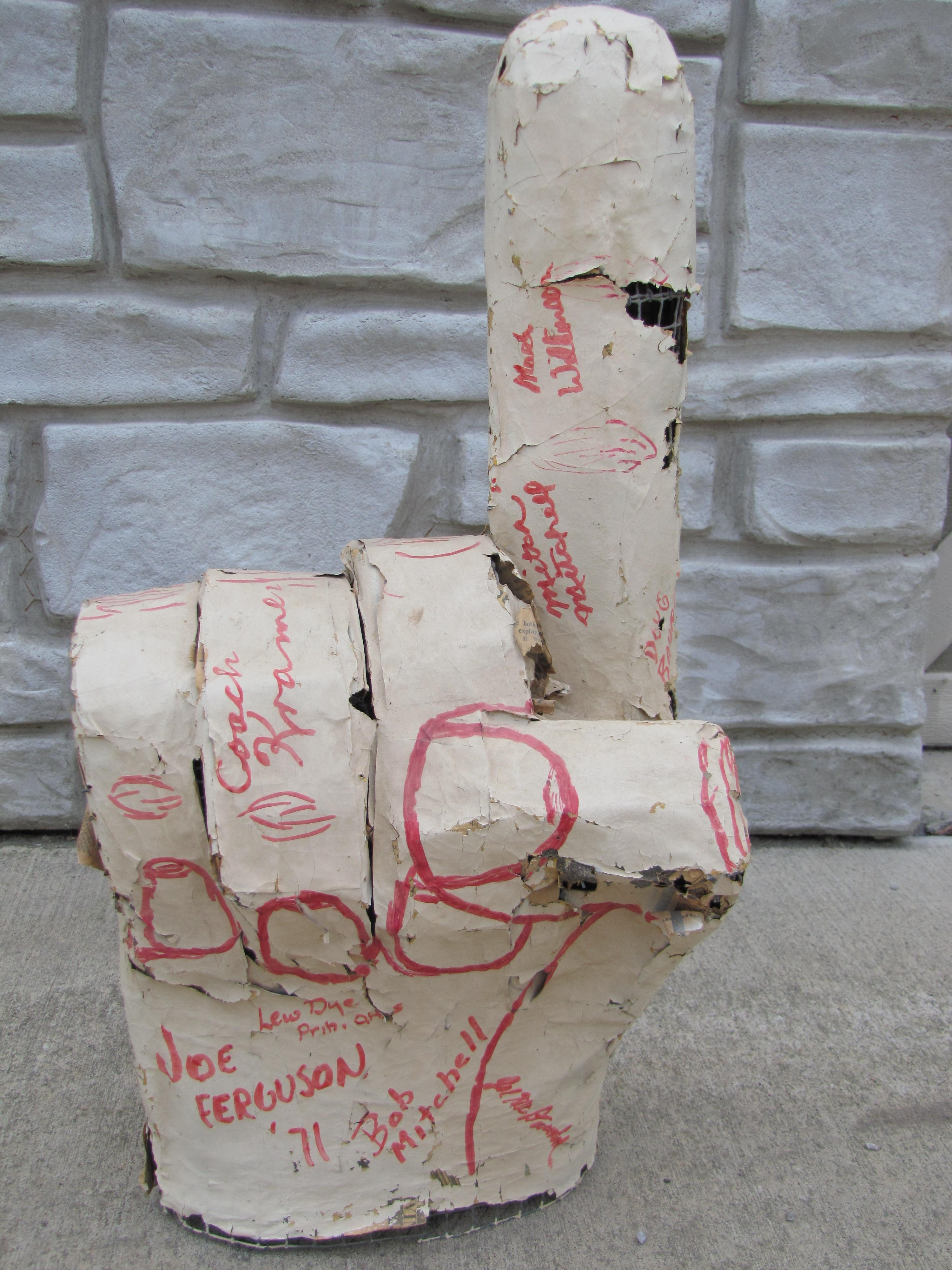 Current photo of the 1971 #1 finger